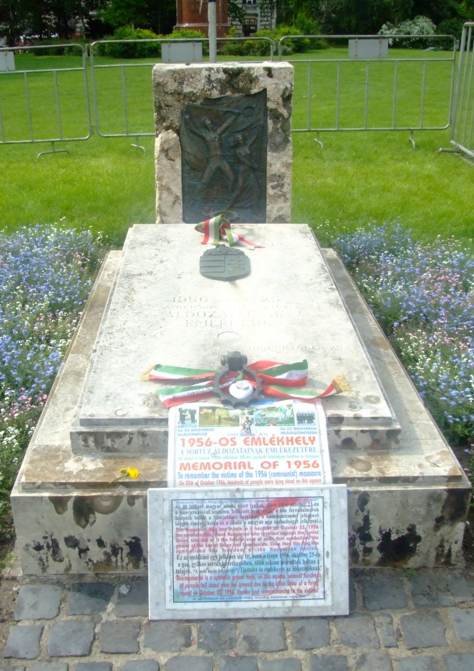 The memorial outside the Hungarian Parliament Building to those who died during the 1956 Hungarian Revolution Summary The memorial outside the Hungarian Parliament Building to those who died during the 1956 Hungarian Revolution.